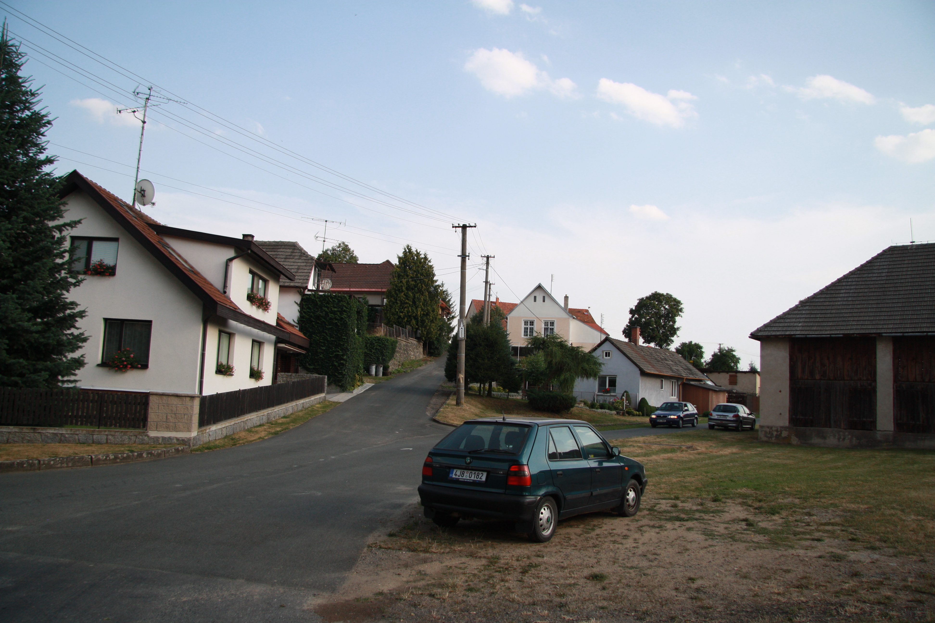 Center of Kamenná, Třebíč District.